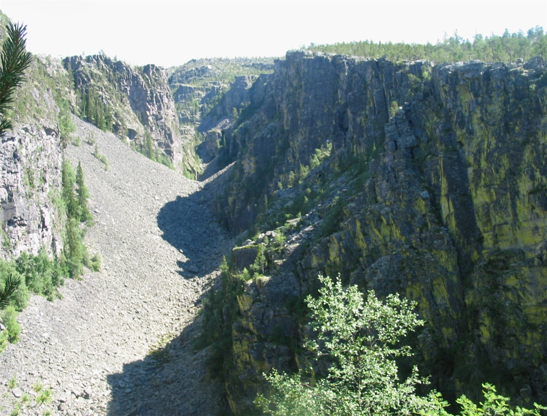 Jutulhogget in Hedmark. Taken by my sister on July 18, 2005 and released into the public domain.